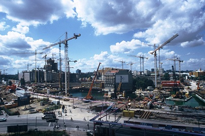 Potsdamer Platz